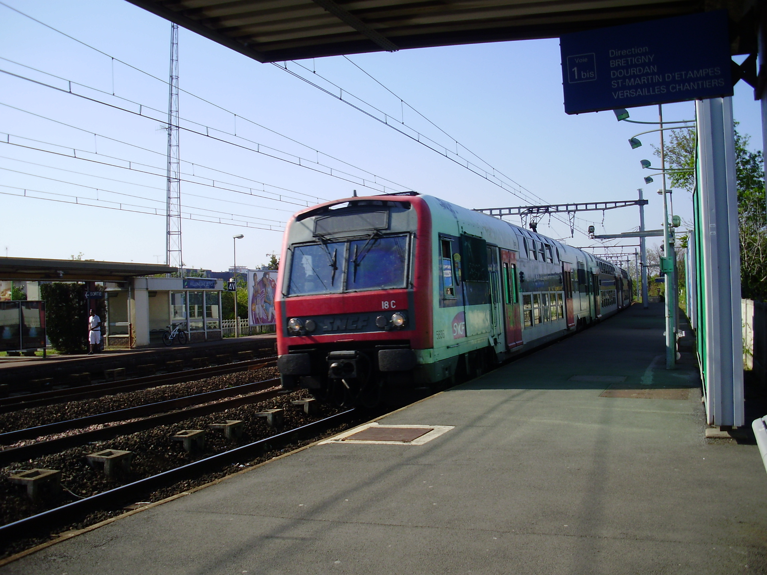 Train without stopping in Villeneuve-le-Roi station, Val-de-Marne, France